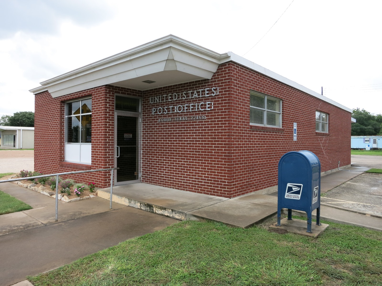 Photo shows the US Post Office at 1000 North Street in Louise, Texas.